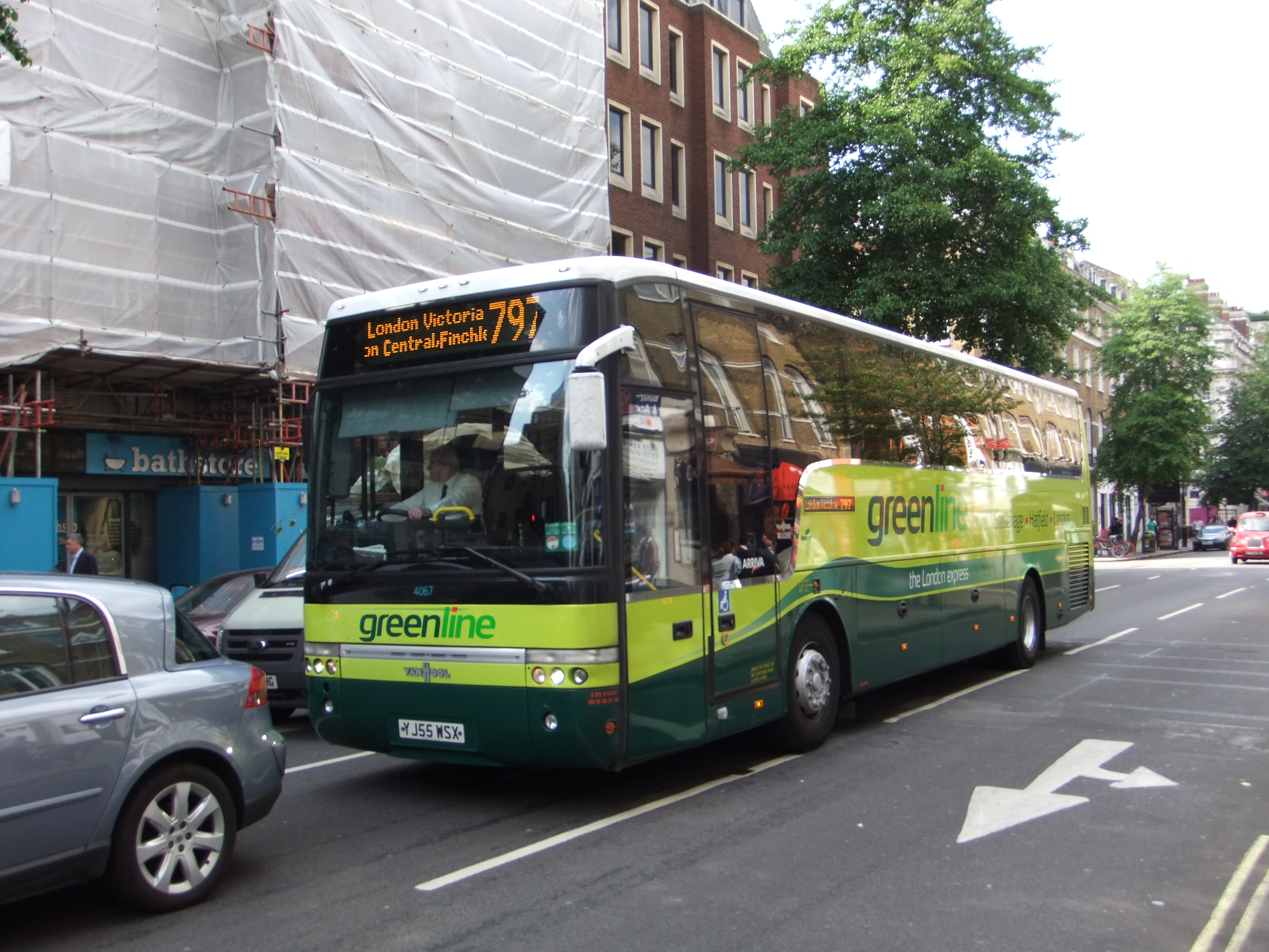 Green Line coach on Baker Street, London.